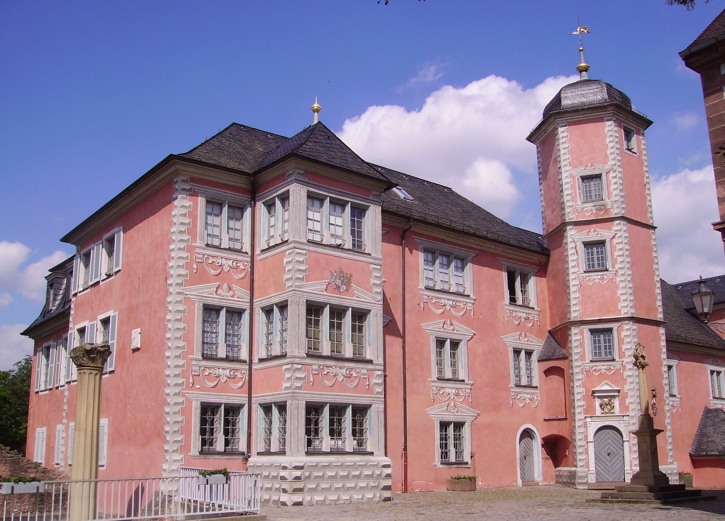 Roman monuments in Ladenburg